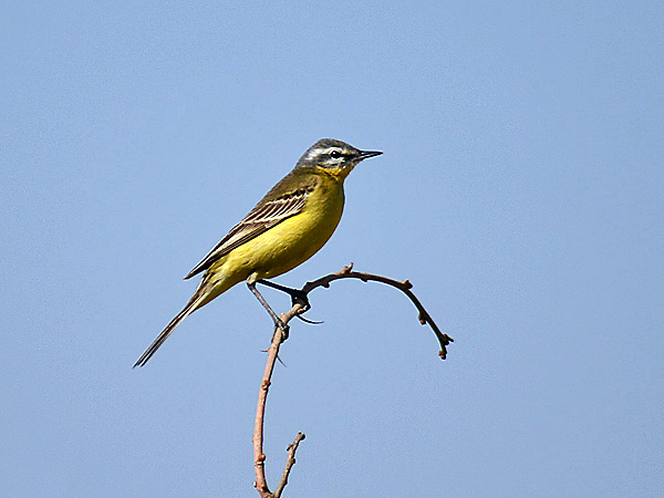 Yellow Wagtail Motacilla flava at Hodal, in Faridabad, District of Haryana, India.